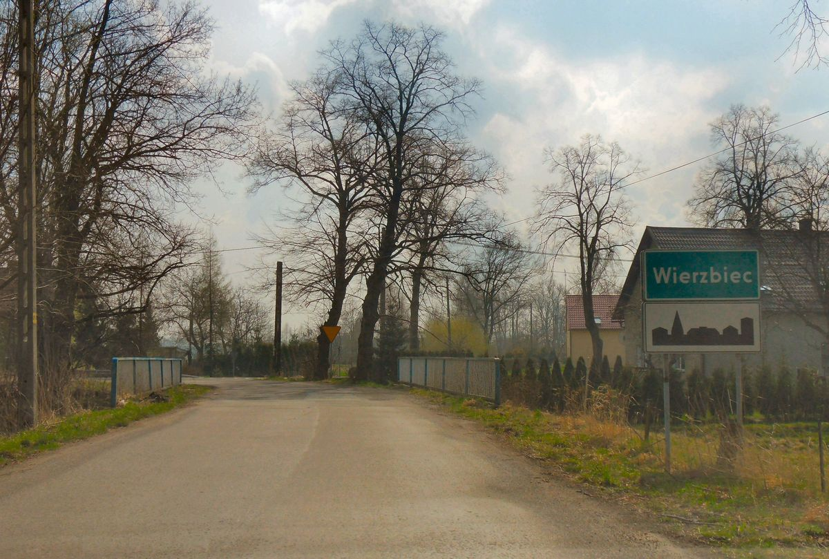 Wjazd do Wierzbca od strony Szybowic